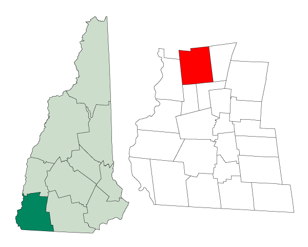 Map of a municipality in Cheshire County, New Hampshire